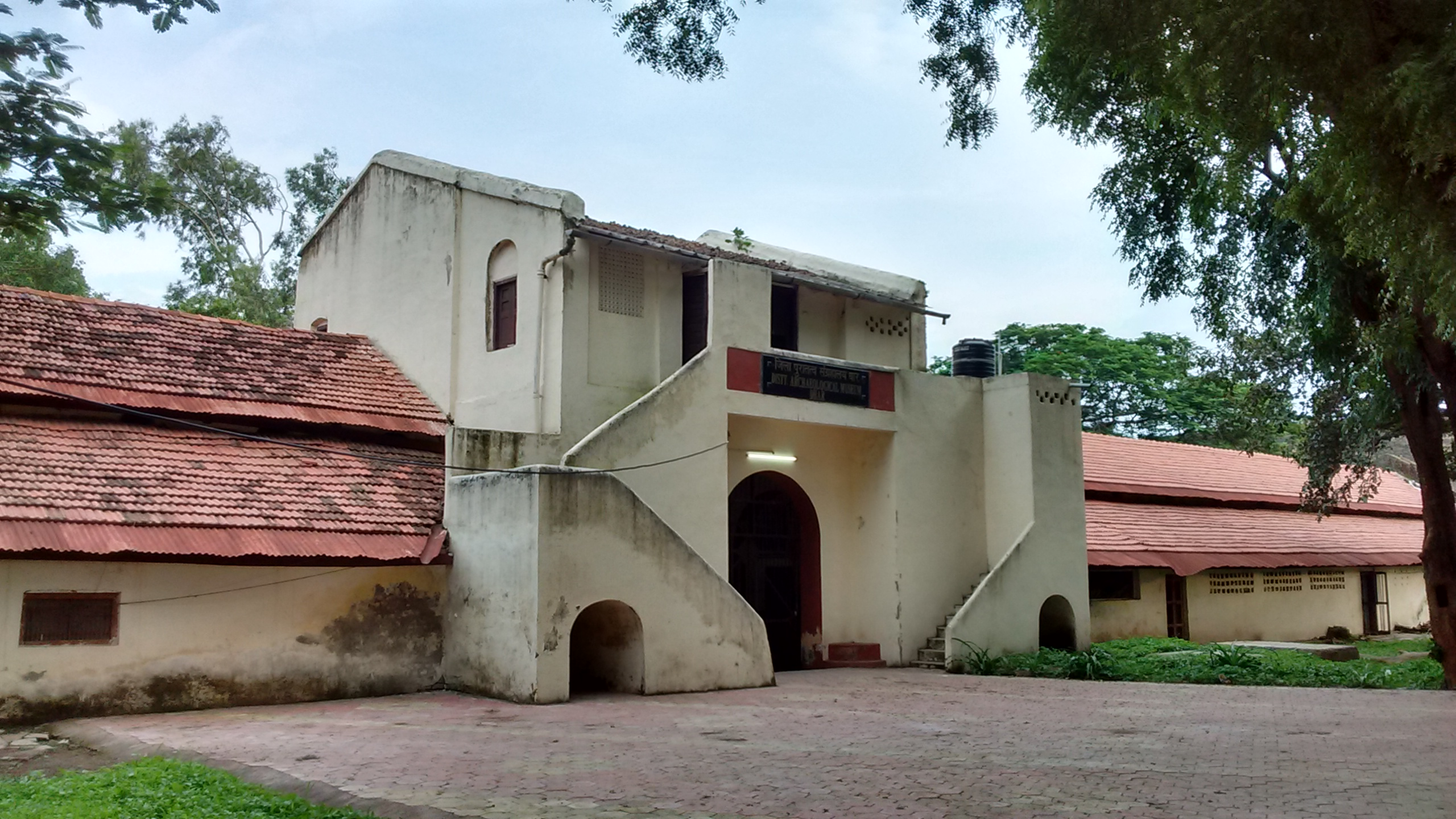 District Archeological Museum, Dhar, Madhya Pradesh